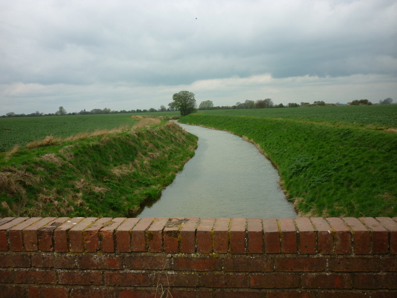 Boating Dike from Jaque's Bank (road)